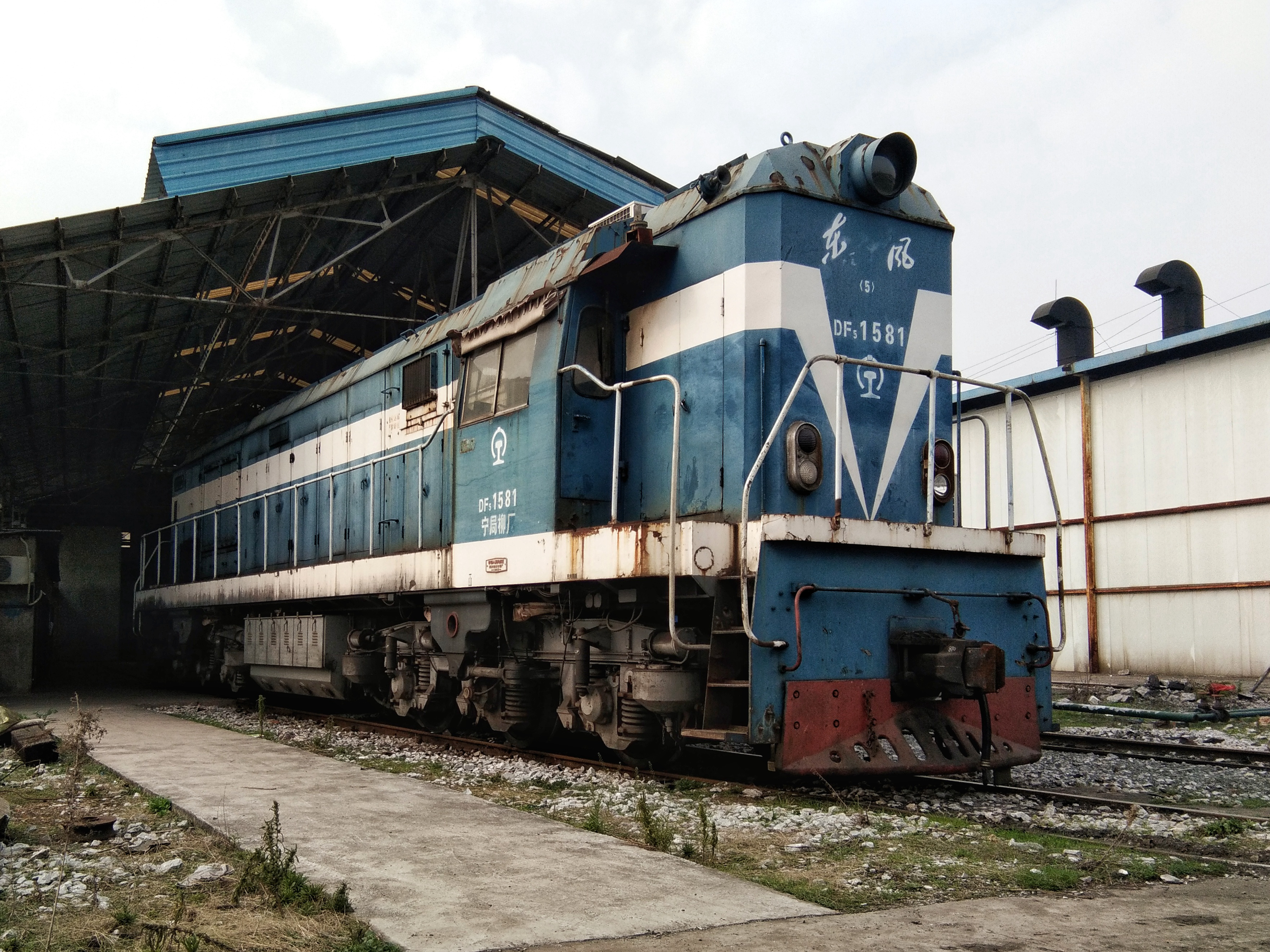 DF5-1581 in Liuzhou Locomotive and Rolling Stock Works, January 2018.